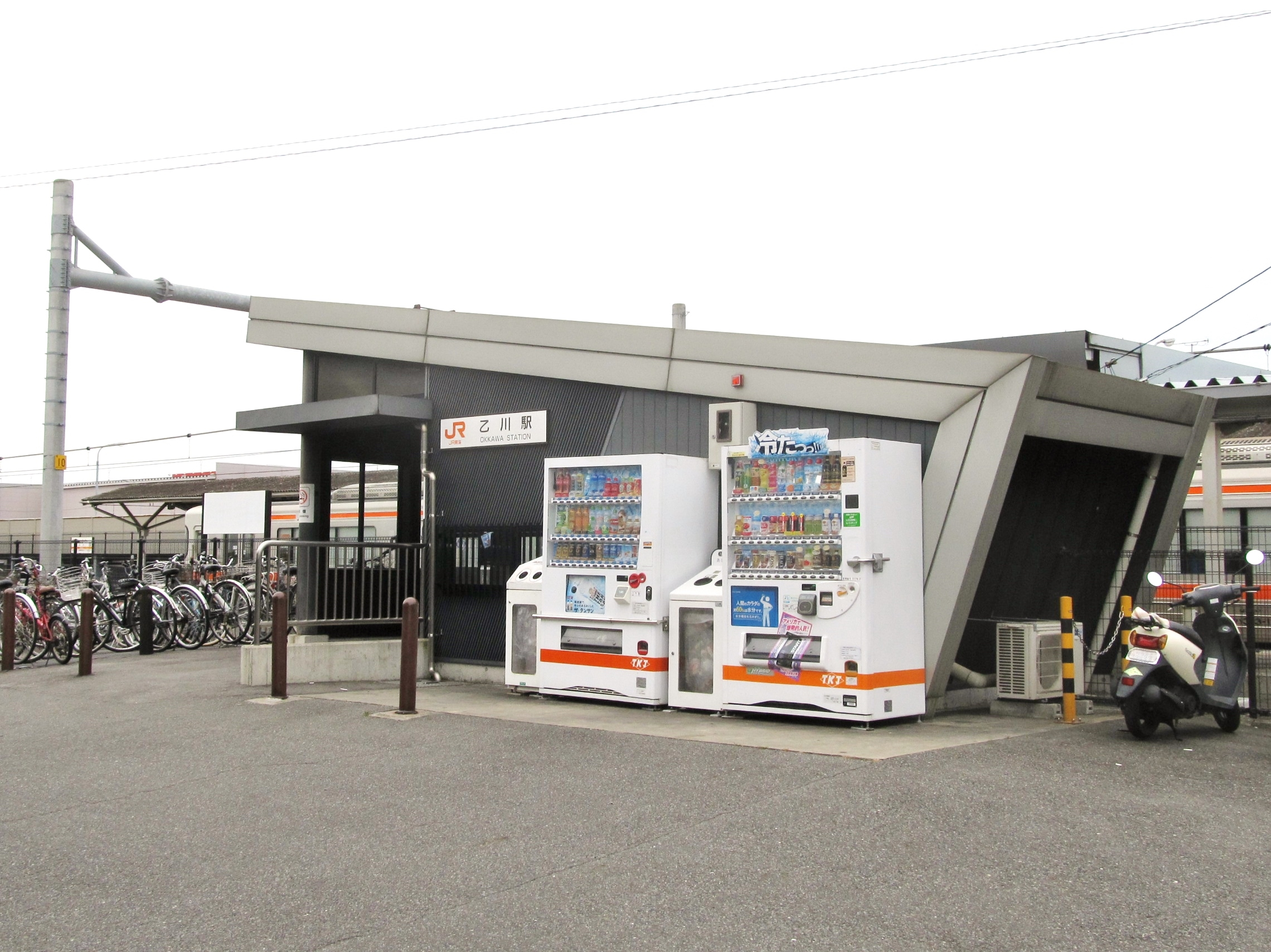 Central Japan Railway Taketoyo Line Okkawa Station Building